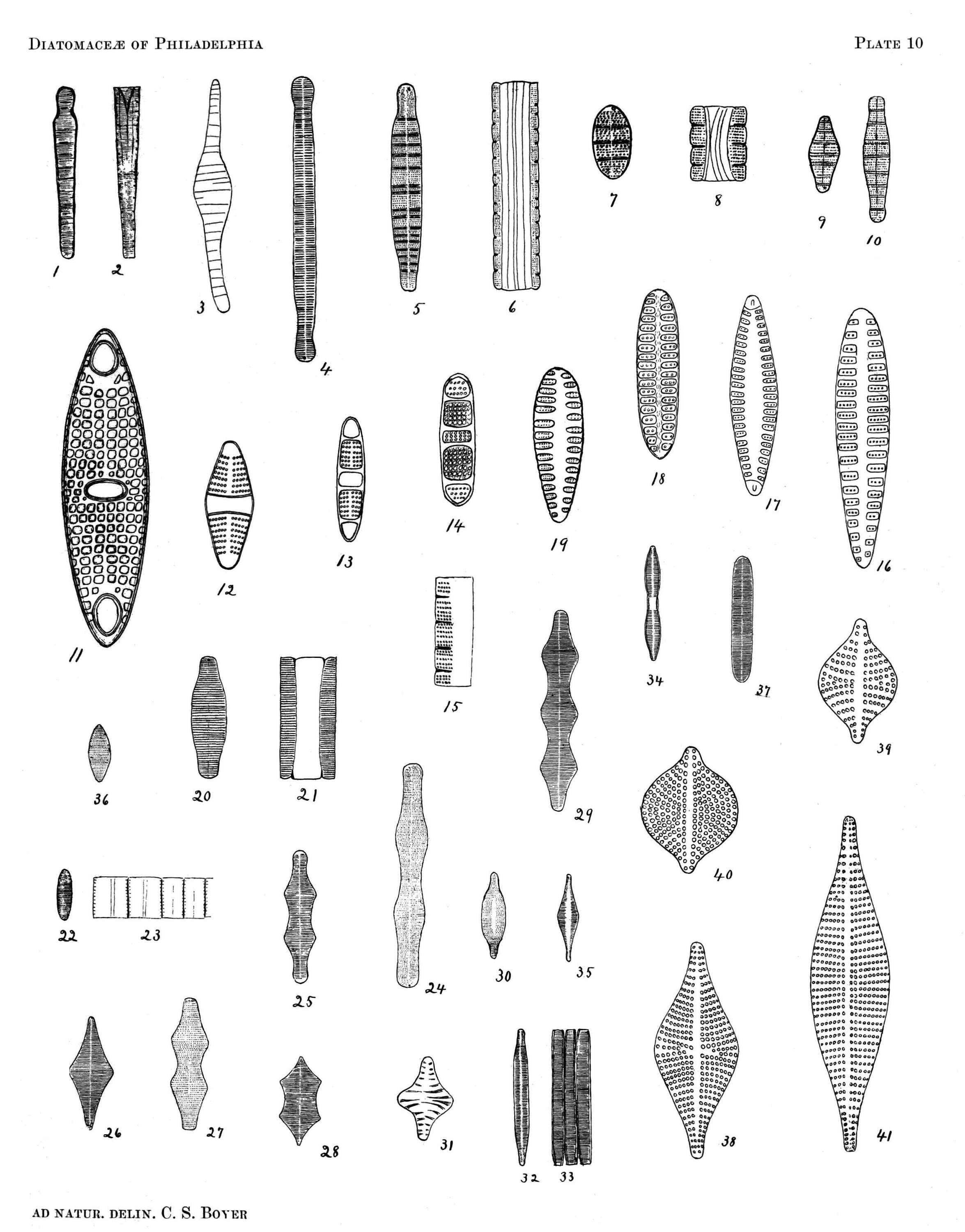 Illustration from Diatomaceae of Philadelphia and Vicinity. Original description follows: PLATE 10 Fig.1-2-3Meridion circulare (Grev.) Ag.4Diatoma vulgare var. grande (Wm. Sm.) Grun.5-6Diatoma anceps (Ehr.) Kirchn.7-8Diatoma hiemale (Lyng.) Heib.9-10Diatoma vulgare Bory.11Plagiogramma tessellatum Grev.12Plagiogramma obesum Grev.13Plagiogramma pygmæum Grev.14Plagiogramma wallichianum Grev.15Eunotogramma læve Grun.16-19Opephora schwartzii (Grun.) Petit.17Opephora pinnata var. lanceolata n. var.18Opephora pacifica (Grun.) Petit.20-21Fragilaria virescens Ralfs.22-23Fragilaria arctica Grun.24-25-27-28-29Fragilaria undata Wm. Sm.26Fragilaria undata Wm. Sm., var.?30Fragilaria construens (Ehr.) Grun.31Fragilaria harrisonii (Wm. Sm.) Grun.34Fragilaria capucina var. mesolepta Rab.35Fragilaria parasitica (Wm. Sm.)36Fragilaria sp. ?37Fragilaria linearis Cstr.38Rhaphoneis amphiceros Ehr.39-40Rhaphoneis amphiceros var. rhombica Grun.41Rhaphoneis belgica var. intermedia Grun.32-33Synedra radians Kuetz.